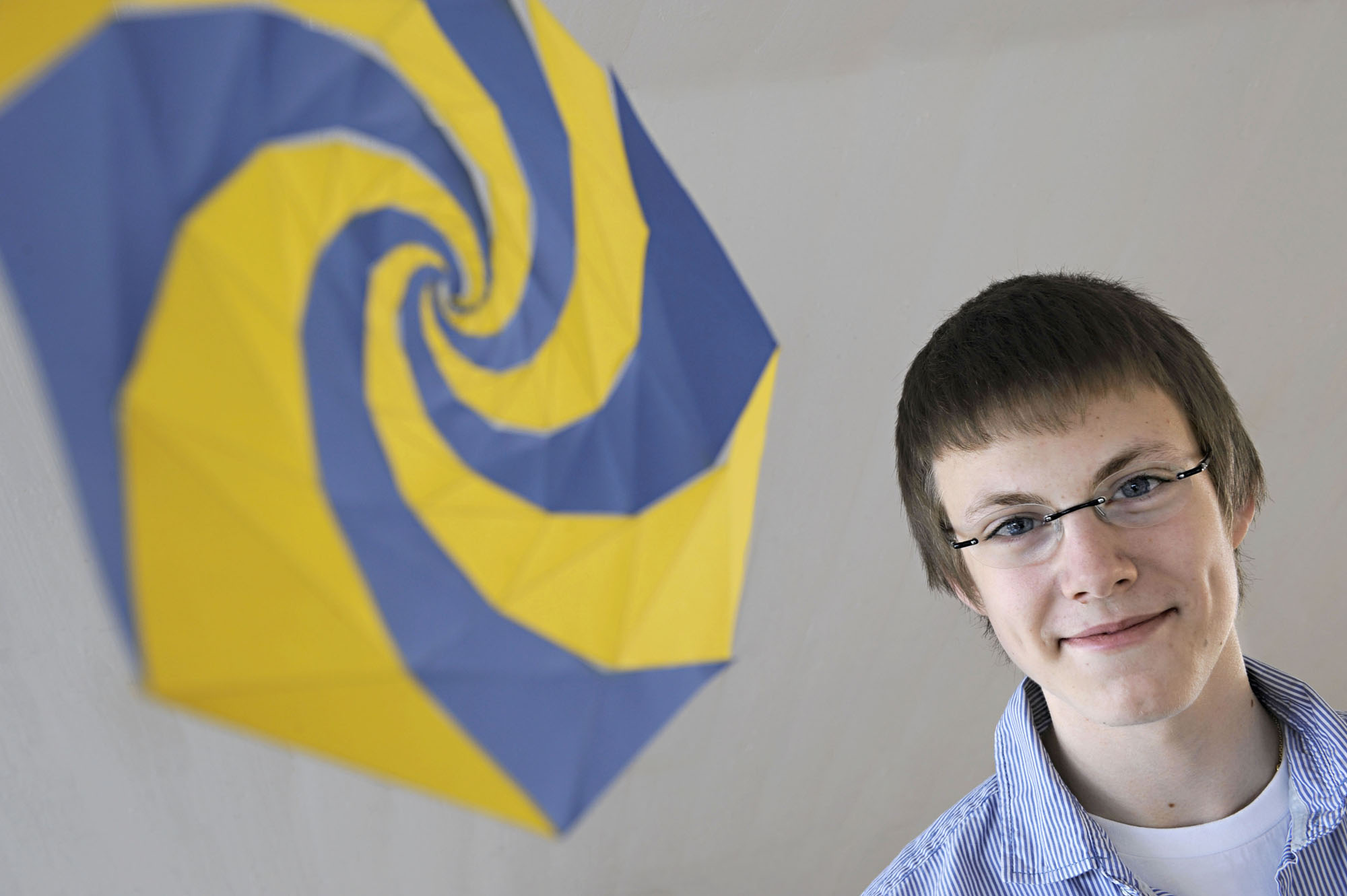 Stefan Stenzhorn with Spidron relief